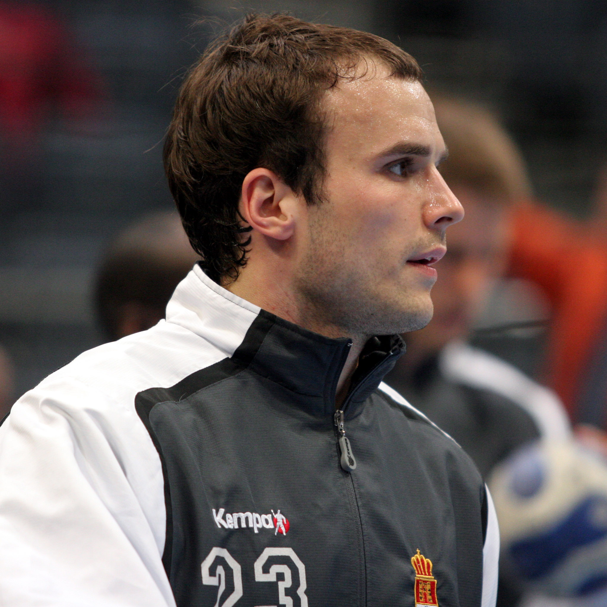 Uroš Zorman, handball player of BM Ciudad Real (Spain), in the Kölnarena prior the champions league game VfL Gummersbach vers. BM Ciudad Real on February 20th, 2008